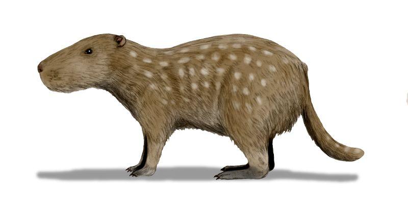 Josephoartigasia monesi, a rodent from the Pliocene of Uruguay, pencil drawing, digital coloring